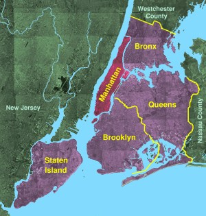 From en.wikipedia Manhattan, shown with the Five Boroughs © 2004 Matthew Trump